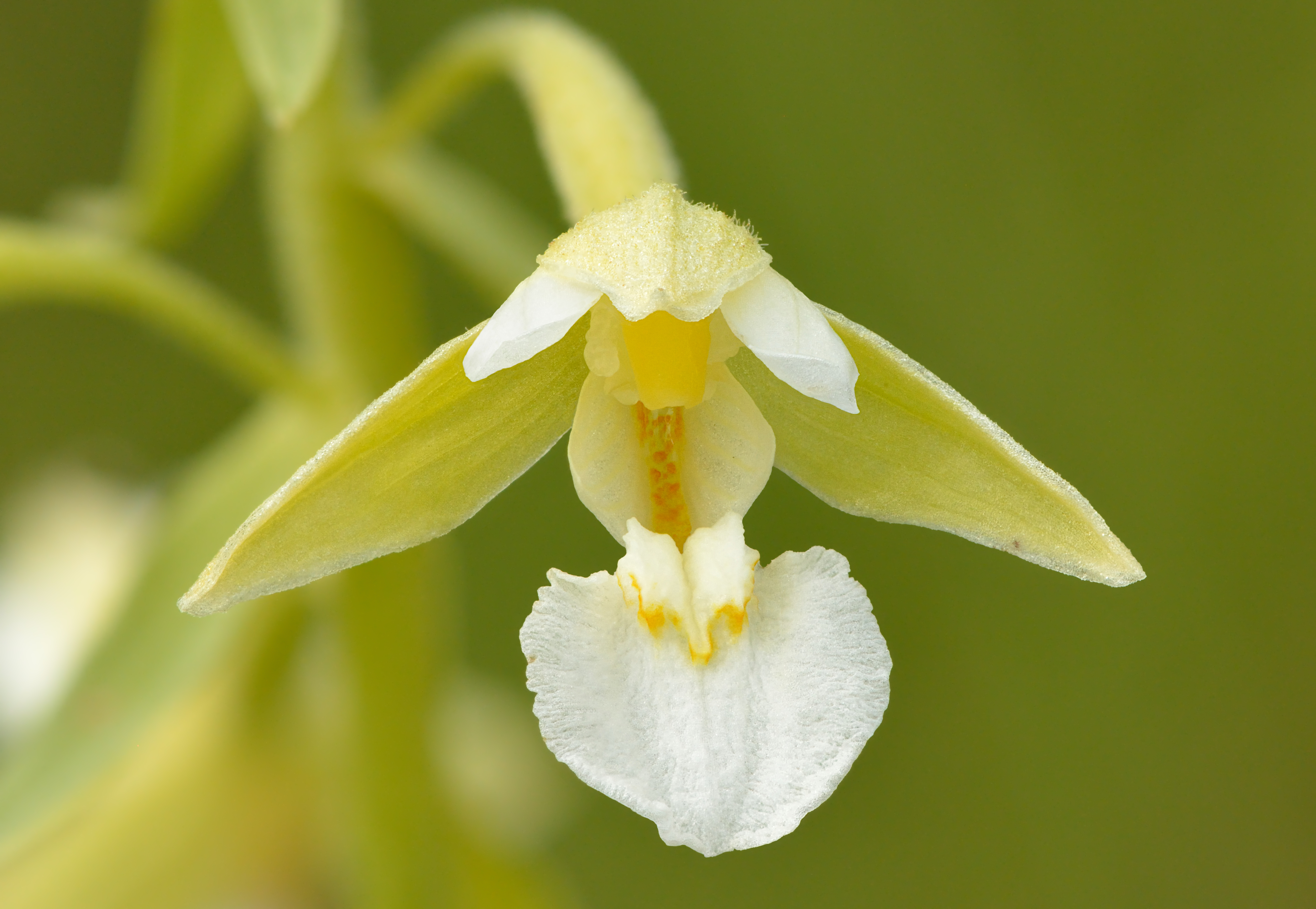 A pale variety of marsh helleborine (Epipactis palustris var. ochroleuca). Niitvälja bog, Northwestern Estonia. Flower size (width × height) ca 18×16 mm.